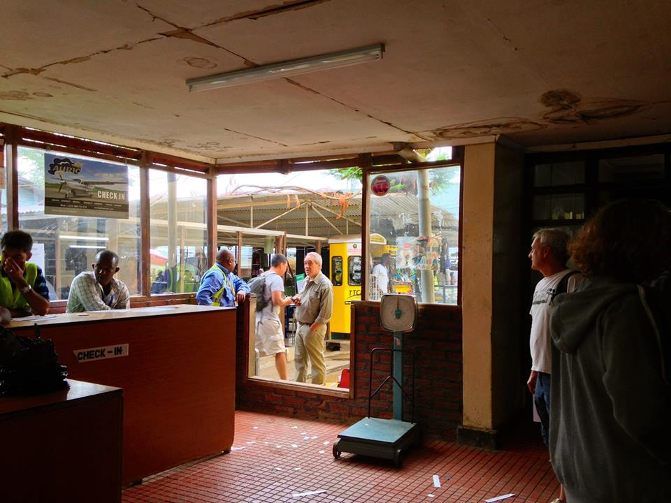 Arusha Airport Departure Lounge and check-in desks